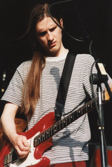 Steven Wilson during Porcupine Tree performances at the Strawberry Fayre, Cambridge 1997.